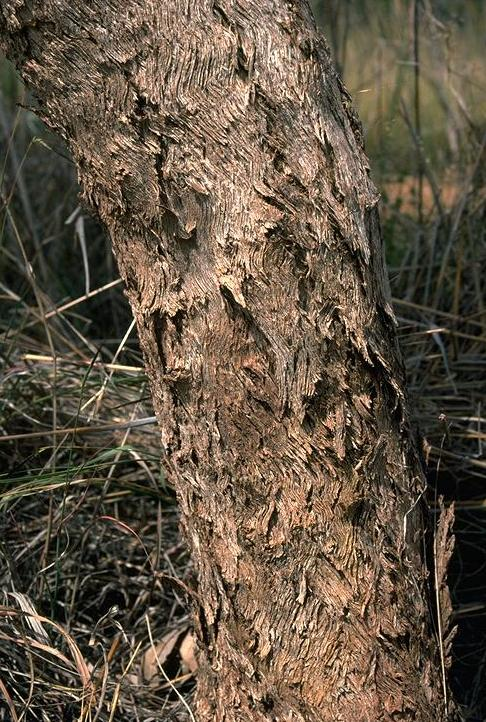 Bark of Eucalyptus argillacea growing near Mount Barnett, Western Australia